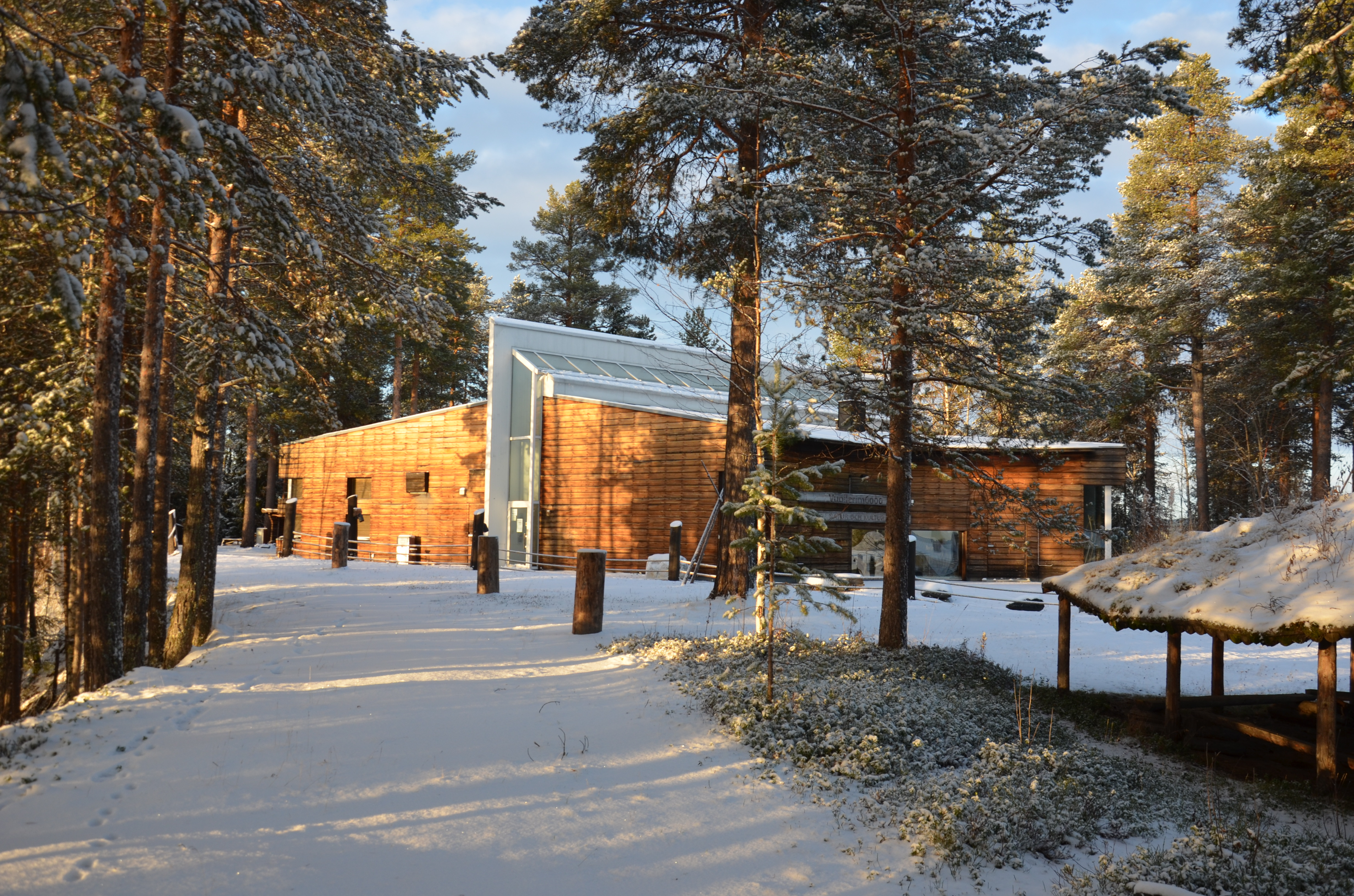 Arkeologiska museet Vuollerim 6000 Natur och kultur, Vuollerim